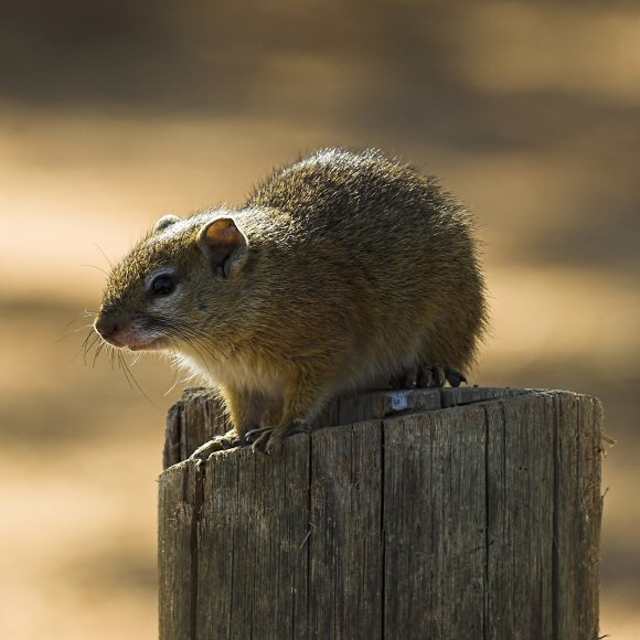 Smith's Bush Squirrel (Paraxerus cepapi) Mabalingwe Nature Reserve, South Africa